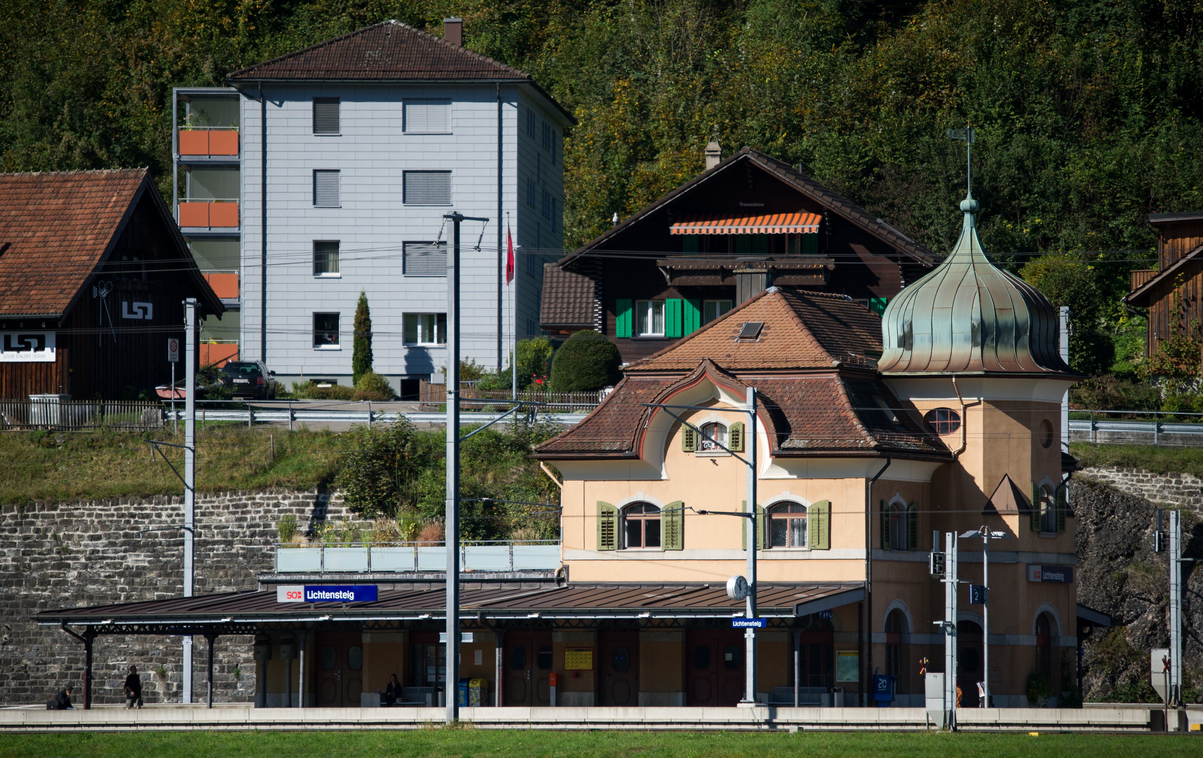 Bahnhof Lichtensteig